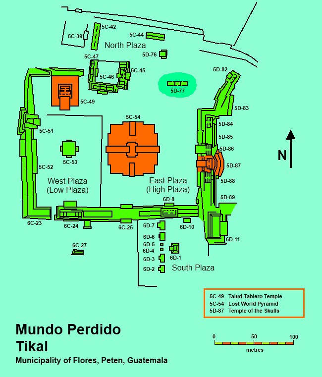 Map of the Lost World (Mundo Perdido) complex in Tikal, Peten, Guatemala. Compiled from various Simposios de Investigaciones Arqueológicas en Guatemala published by the Museo Nacional de Arqueología y Etnología, Guatemala, together with Tikal: Dynasties, Foreigners, & Affairs of State edited by Jeremy A. Sabloff and Tikal: Guía de las Antiguas Ruinas Mayas by William R. Coe.